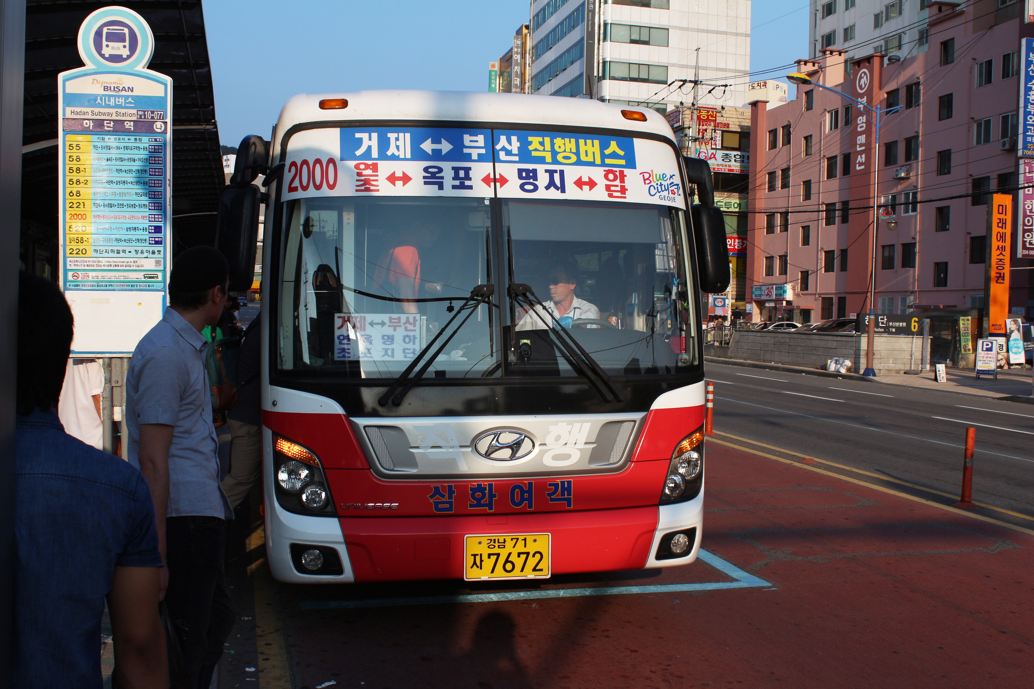 Geoje Bus No. 2000, South Korea